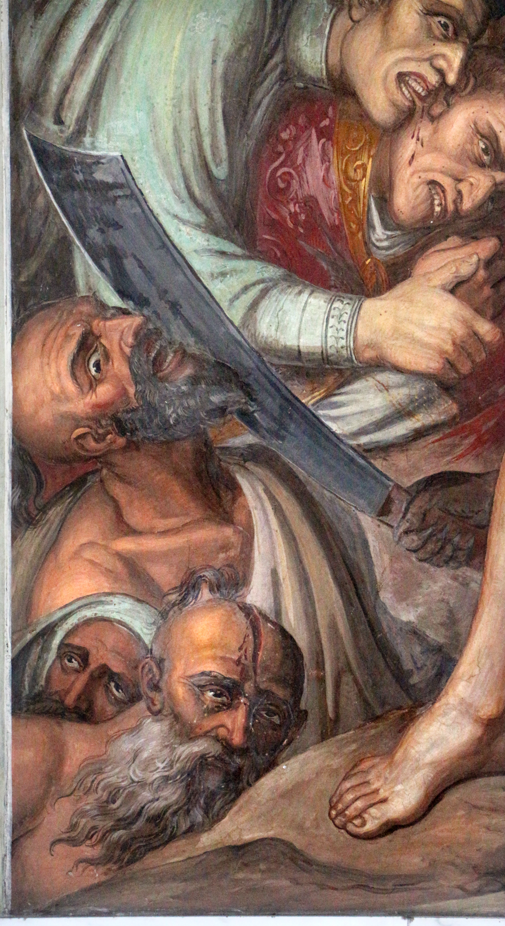 Casa Massimo frescos - stanza di Dante